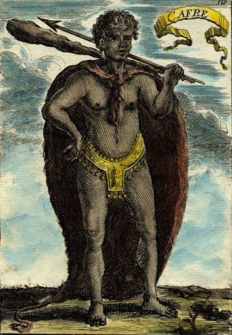 All the maps and views shown here come from different editions (1683-1719) of Mallet; some of them are from translations into German and Italian, and some from later reissues by others, with or without small modifications.